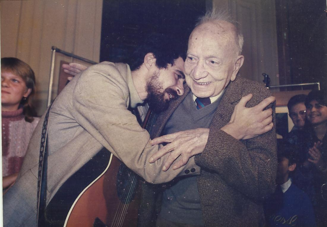 Henrique Mann e Mário Quintana